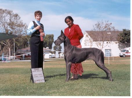 A blue great dane being stacked at a dog show.